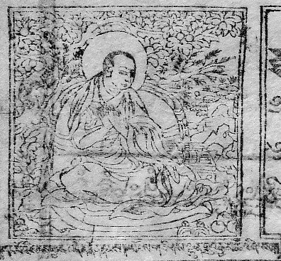 The Tibetan Astromomer Phugpa Lhündrub Gyatsho (15th Century) from a Tibetan Blockprint of the Vaidurya dkar po (1685)